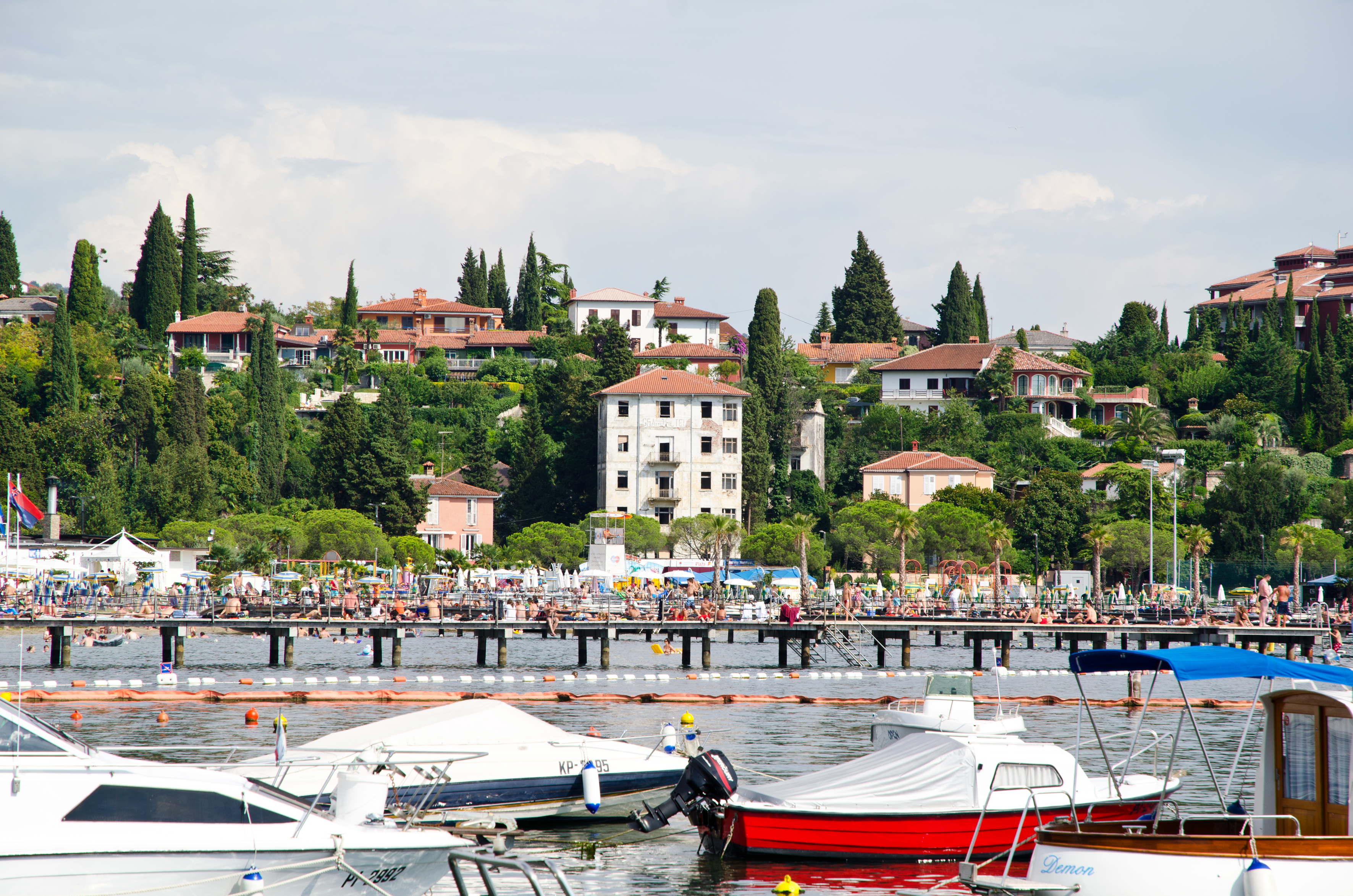 Portorož (Slovenia), bay area, swimming beach, condemned building